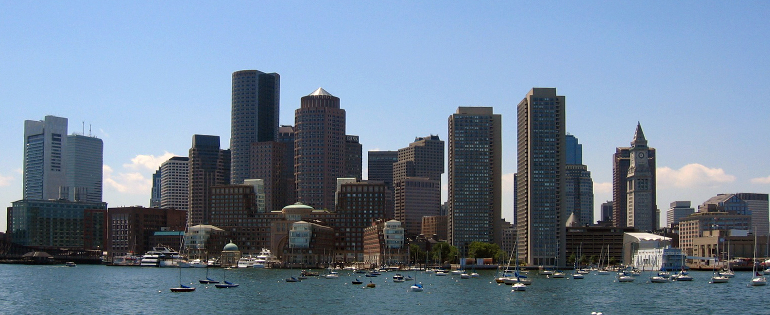 Boston from the harbor side.